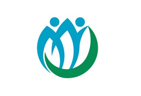 Flag of Gosen Niigata